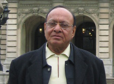 cropped image from original